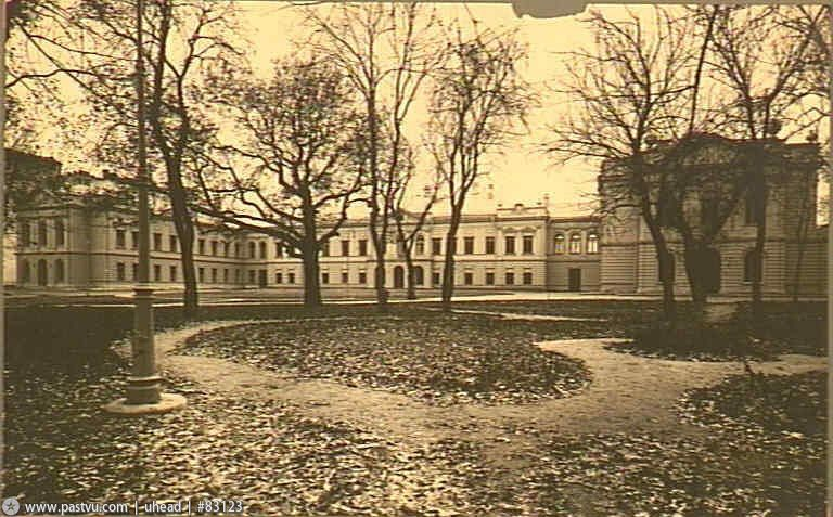 The Vyazemskiy-Dolgorukiy estate — on Znamensky Lanes, Moscow. The former palace is now a building of the Pushkin Museum.